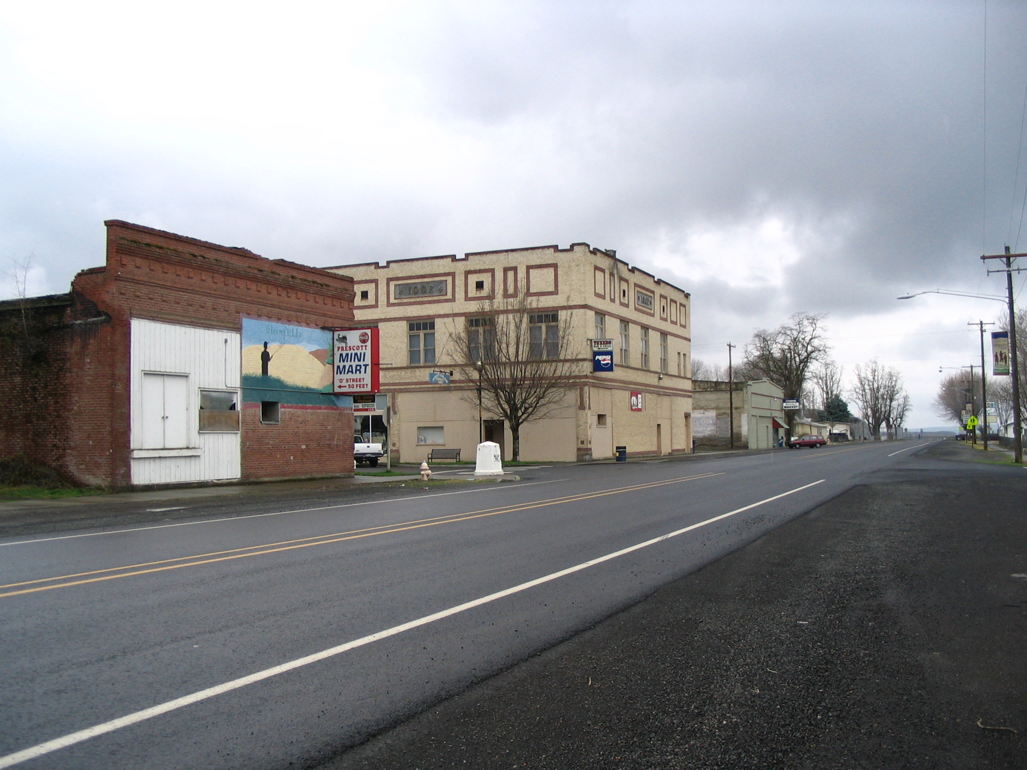 Main intersection in Prescott, self-taken picture of Prescott, Washington